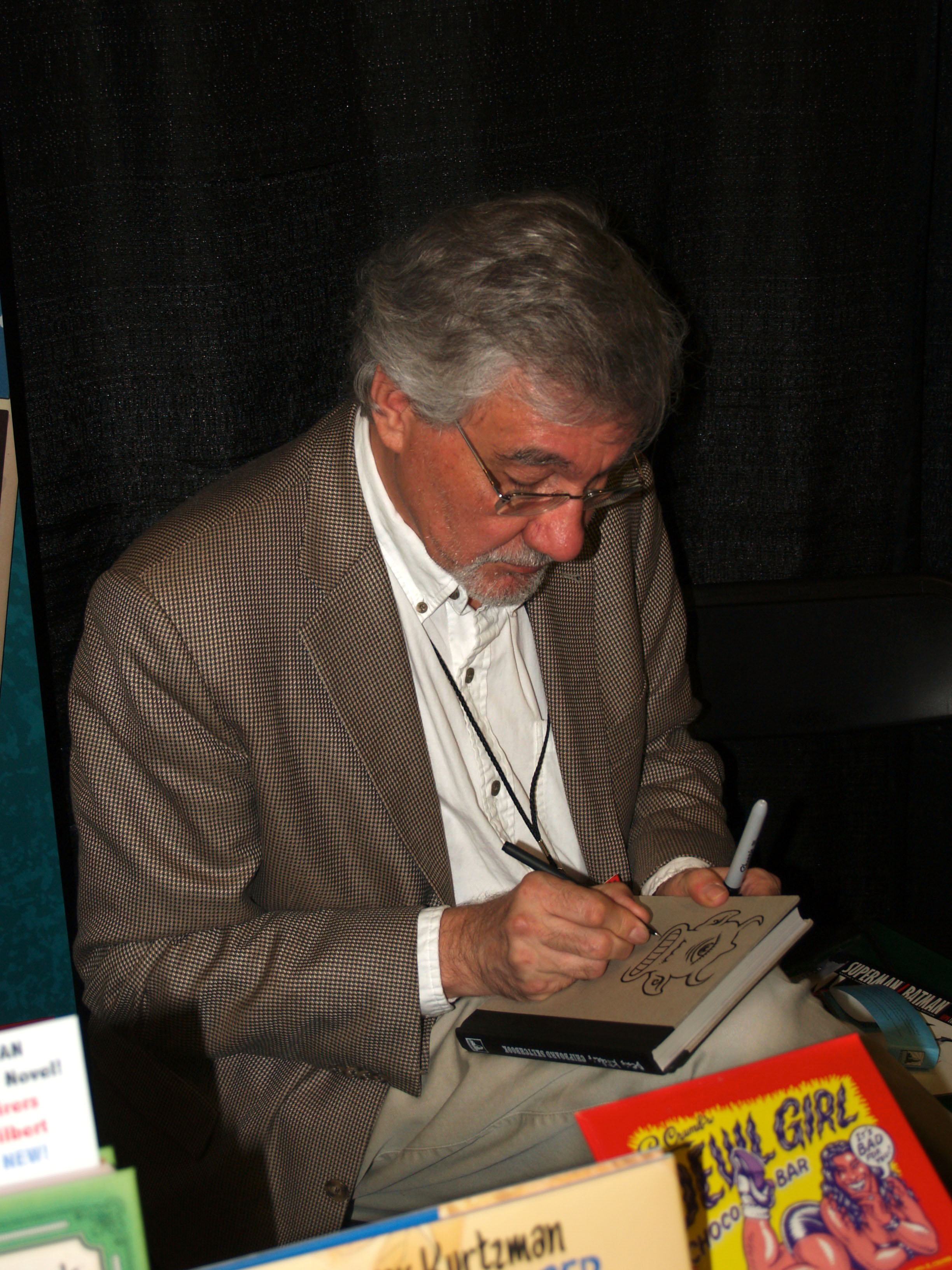 Comics creator and publisher Denis Kitchen sketching at the Meadowlands Exposition Center in Secaucus, New Jersey on April 16, 2016, Day 1 of the 2016 East Coast Comicon. This photo was created by Luigi Novi. It is not in the public domain, and use of this file outside of the licensing terms is a copyright violation.